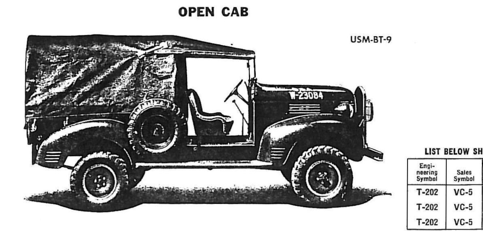 Dodge VC-5 Open Cab pickup / express body (engineering code T-202; body type code USM-BT-9)